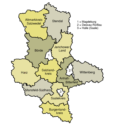 Counties of Saxony-Anhalt after July 2007